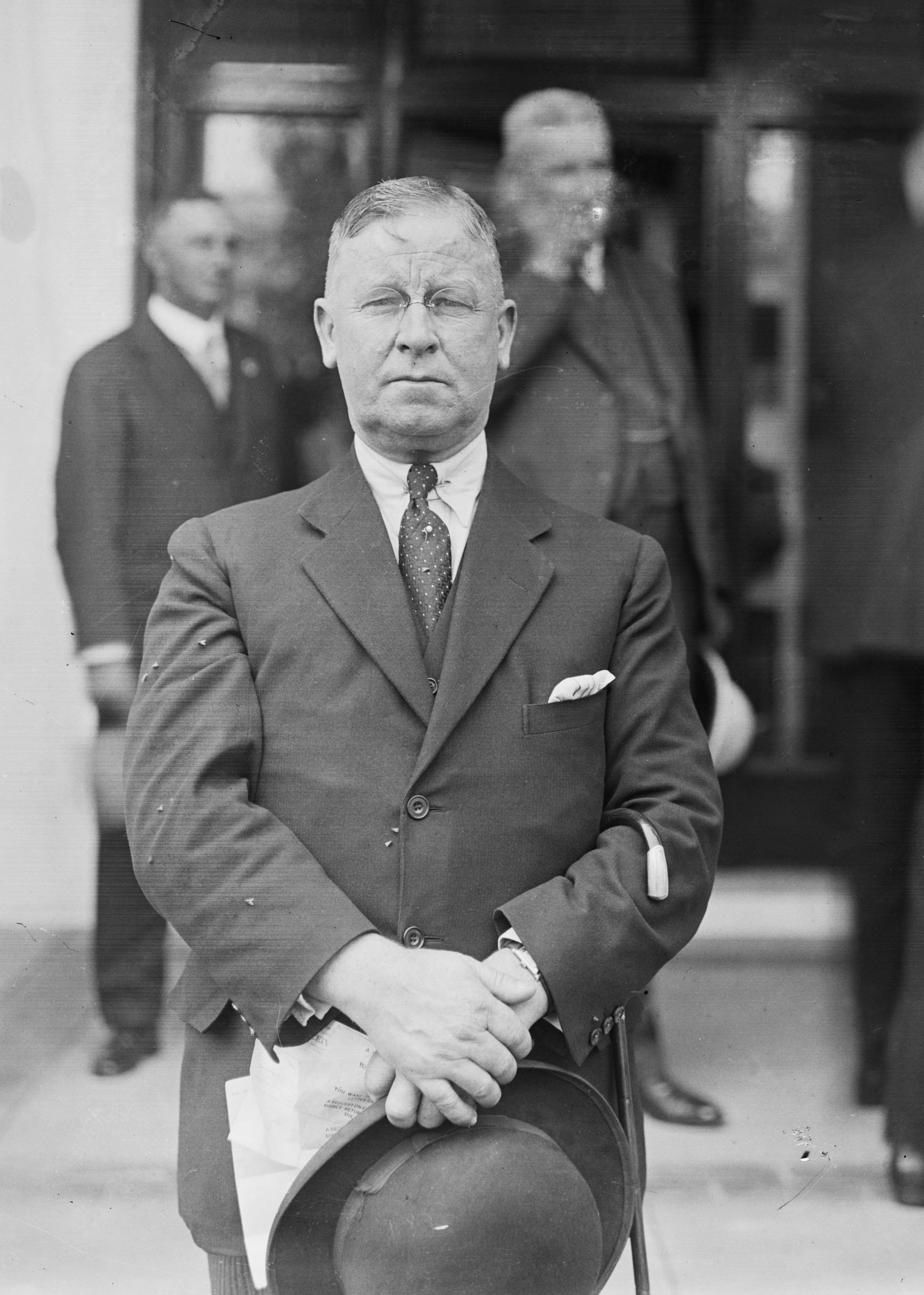 Australian politician Archdale Parkhill in Canberra for the swearing-in of the Lyons Government and himself as a minister